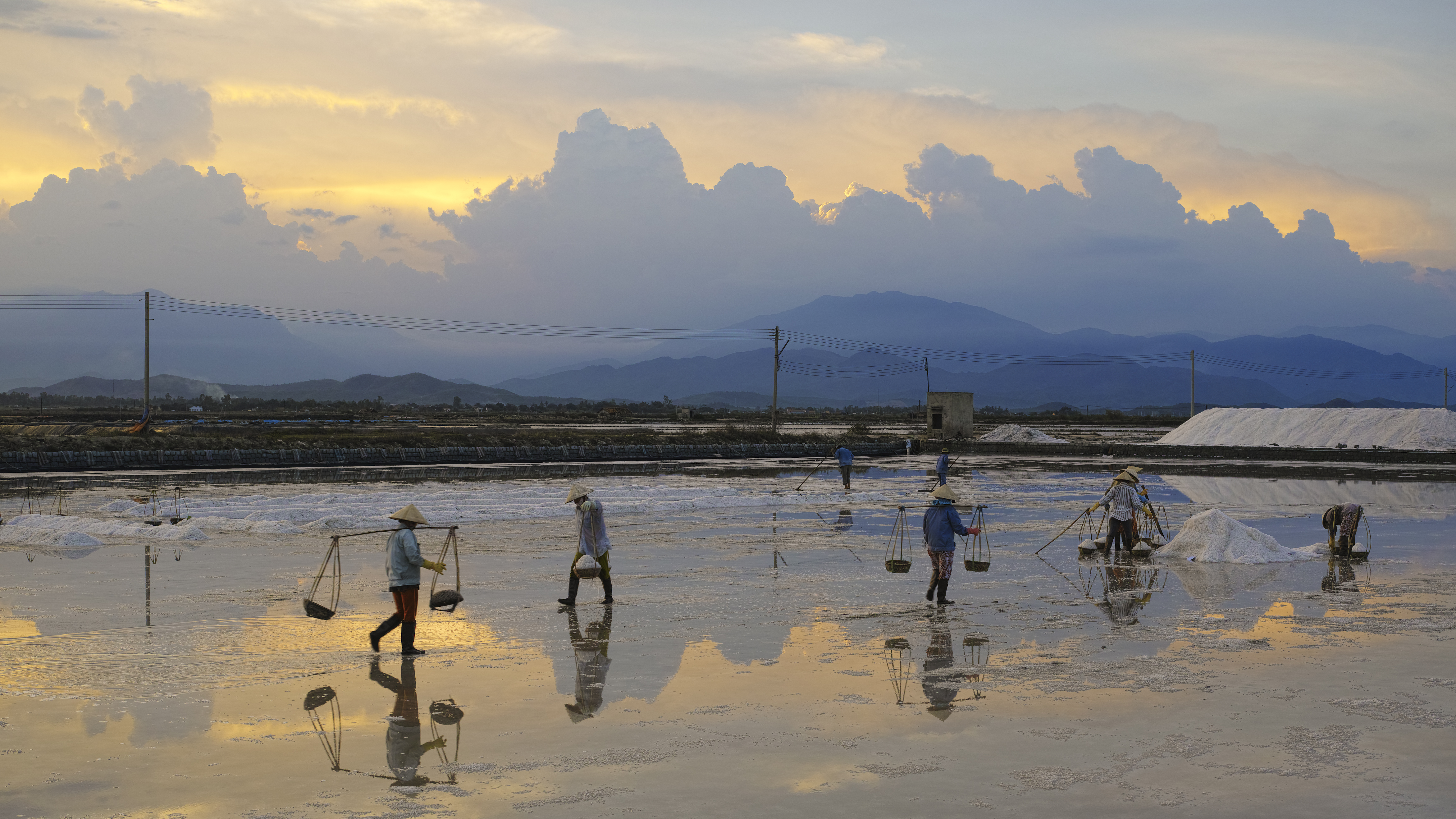 Making salt by evaporation of sea water near Ninh Hòa town, Khánh Hòa Province Vietnam.